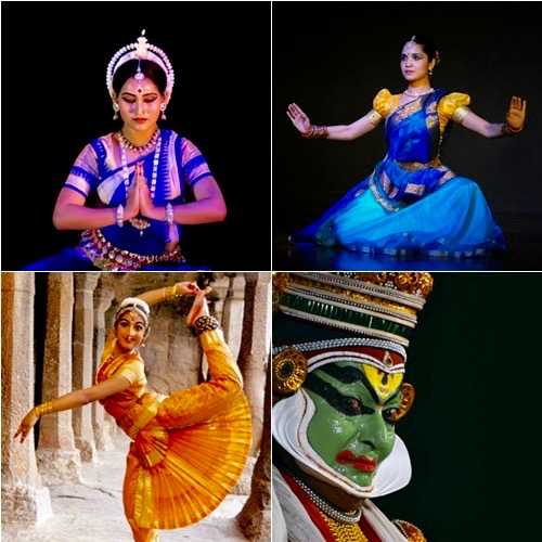 This is a collage of the following four images available on wikimedia with creative commons license: File:Odishi Dancer in Pose.jpg File:Anjum Bharti - 05.jpg File:Yoga-5.png File:Kalamandalam Gopi as Nalan.jpg